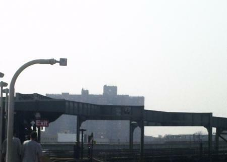 Trackway above Alabama Avenue to Broadway Junction